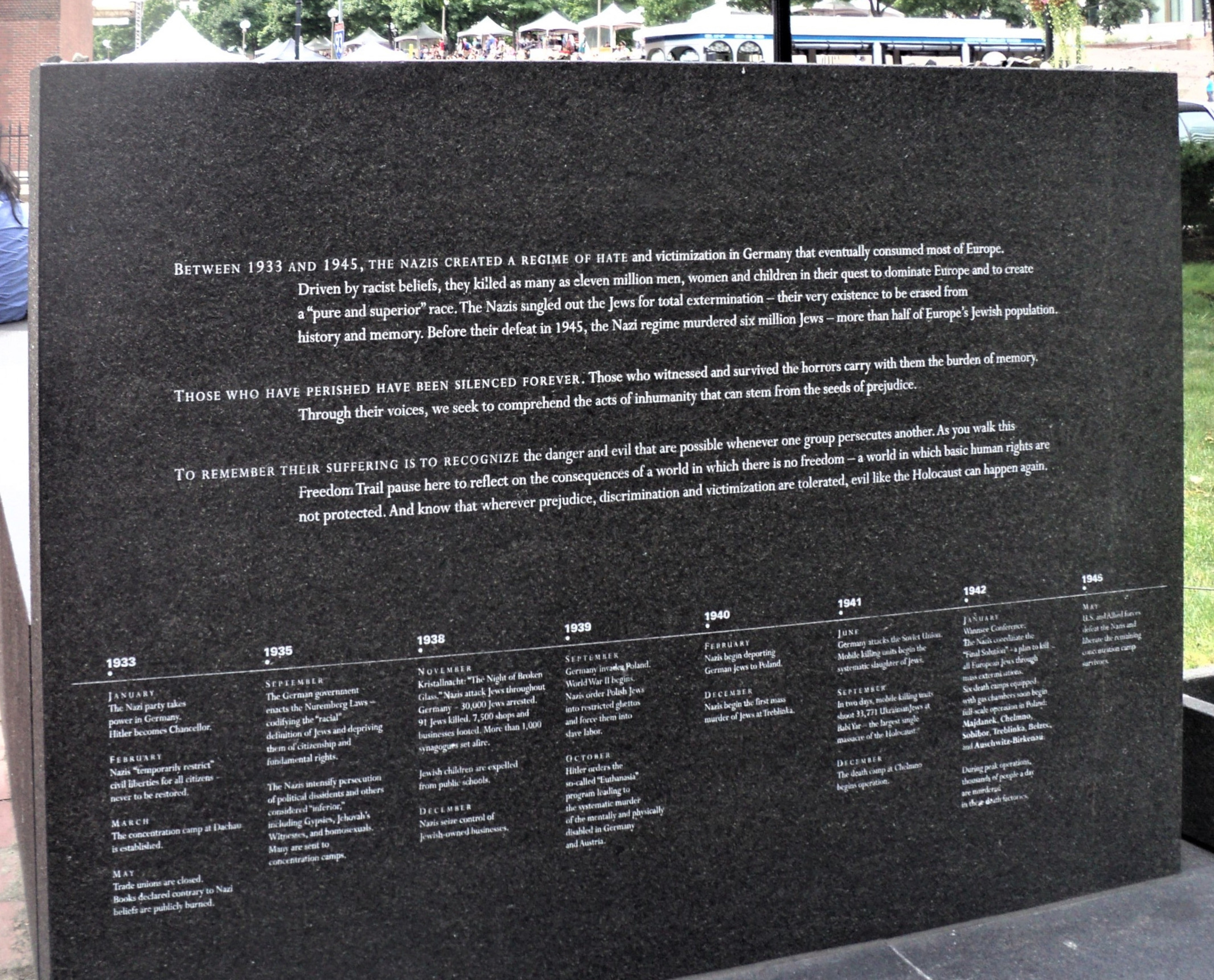 New England Holocaust Memorial in Boston, MA